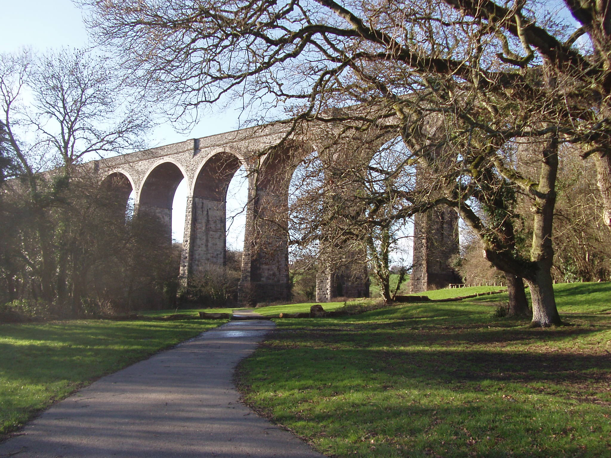 Porthkerry Viaduct, Barry, Vale of Glamorgan south Wales, UK